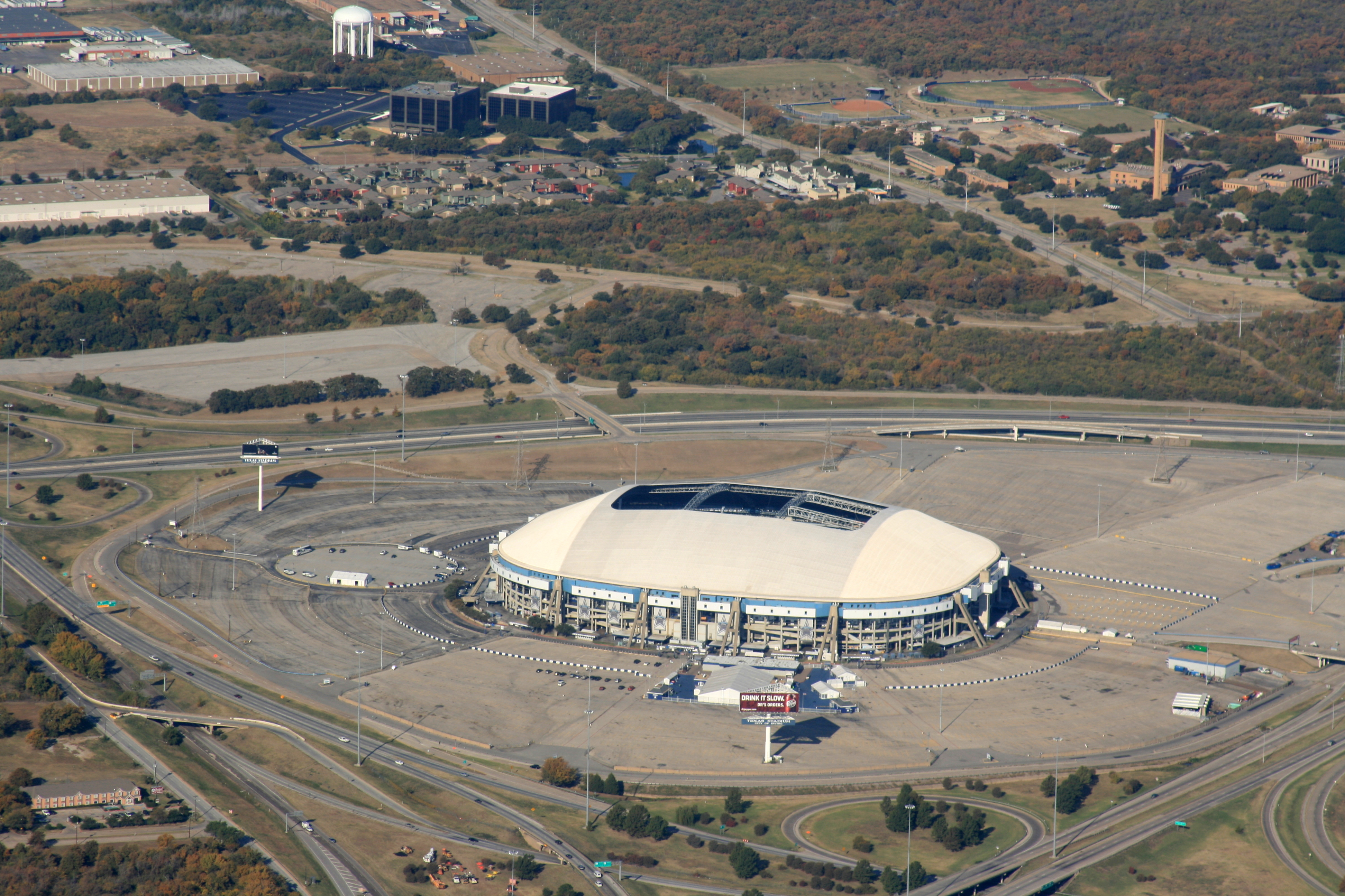 An aerial shot of the Texas Stadium in Irving, Texas.